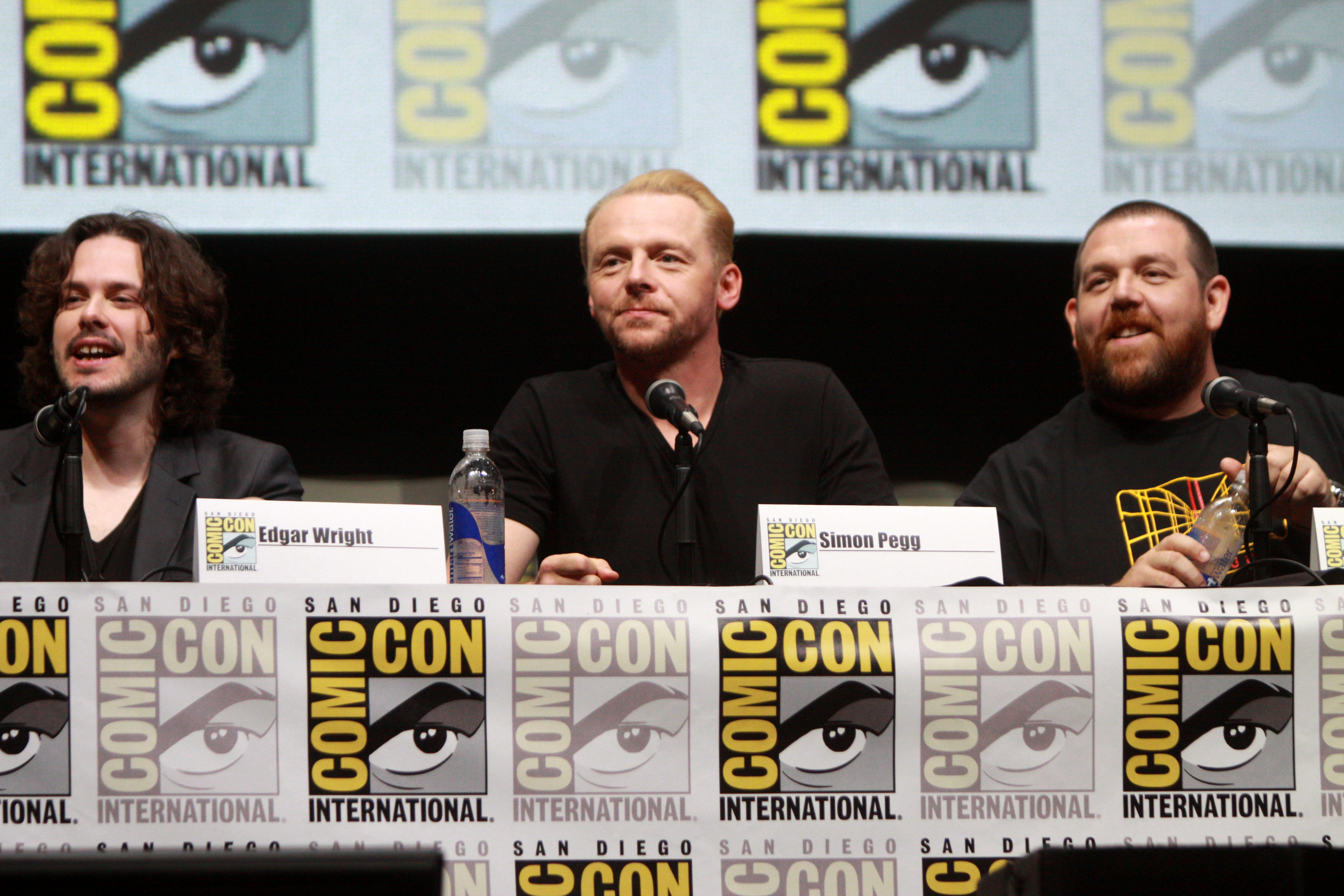 Edgar Wright, Simon Pegg and Nick Frost speaking at the 2013 San Diego Comic Con International, for "The World's End", at the San Diego Convention Center in San Diego, California.